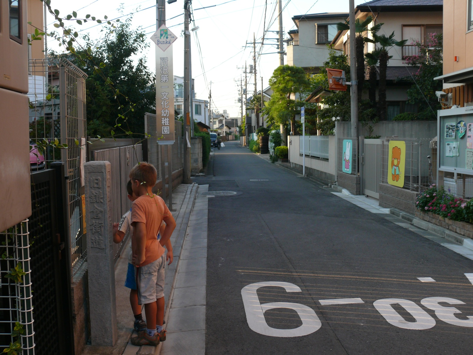 Old Kamakura Kaido Highway as it passes through Tokorozawa, Saitama, Japan. The exact routes taken by the ancient road are not always known today as they have been obscured by neglect and alterations over the centuries. Where the route is known, there are often markers as in the gray column with the Kanji "旧鎌倉街道" written vertically on the left side of the photo.